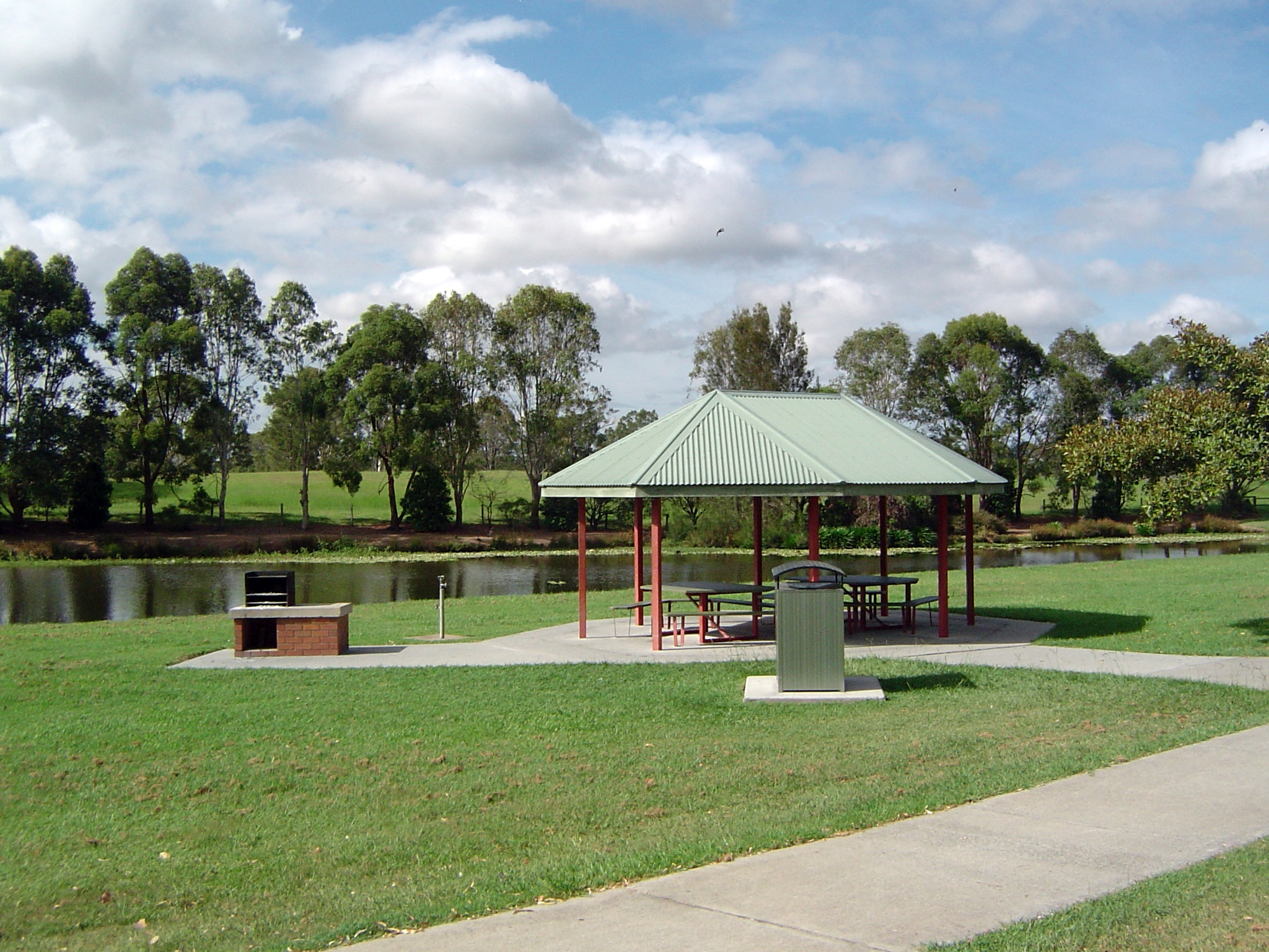 Photo of barbeque, picnic table and waterhole at Meadowbrook, Logan City, Queensland, Australia.